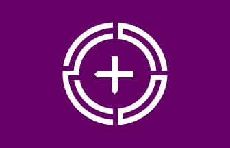 Flag of Numata Gunma